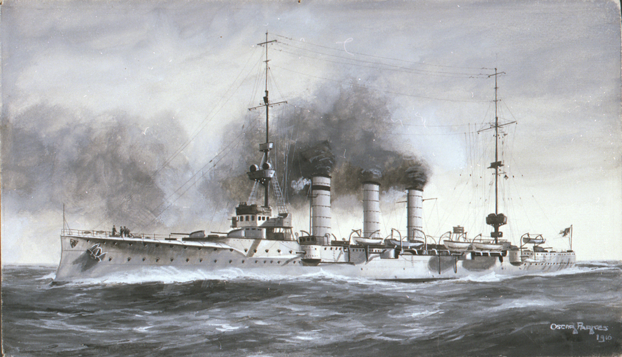 German scout Mainz Grisaille.; Medium includes graphite.; Signed by artist.